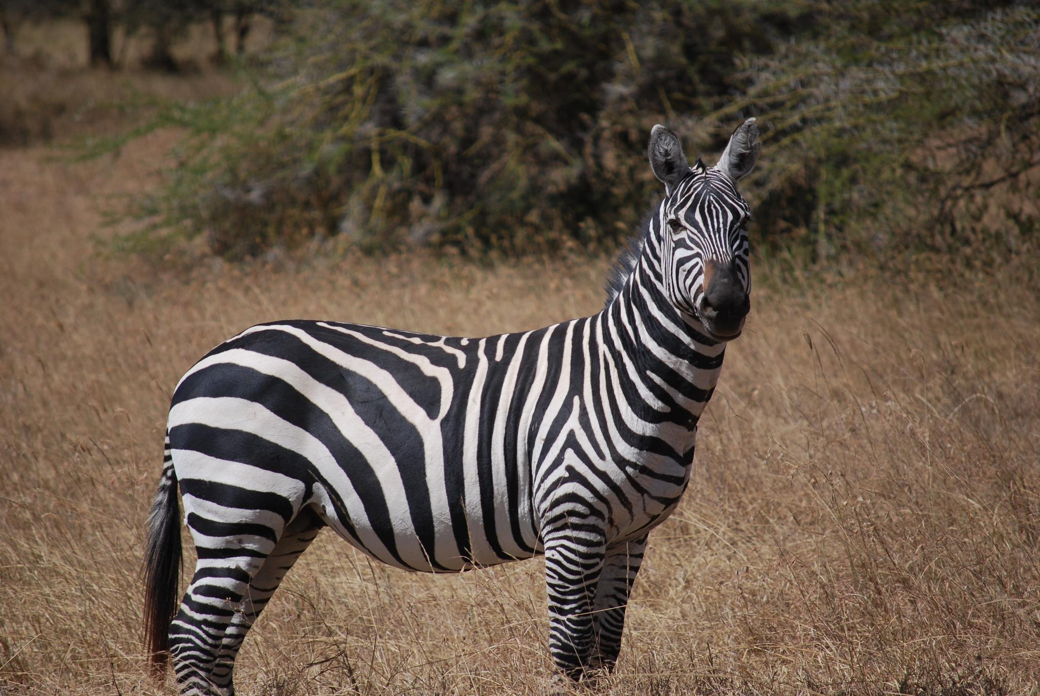 Grant's zebra (Equus quagga boehmi) in Lake Nakuru National Park